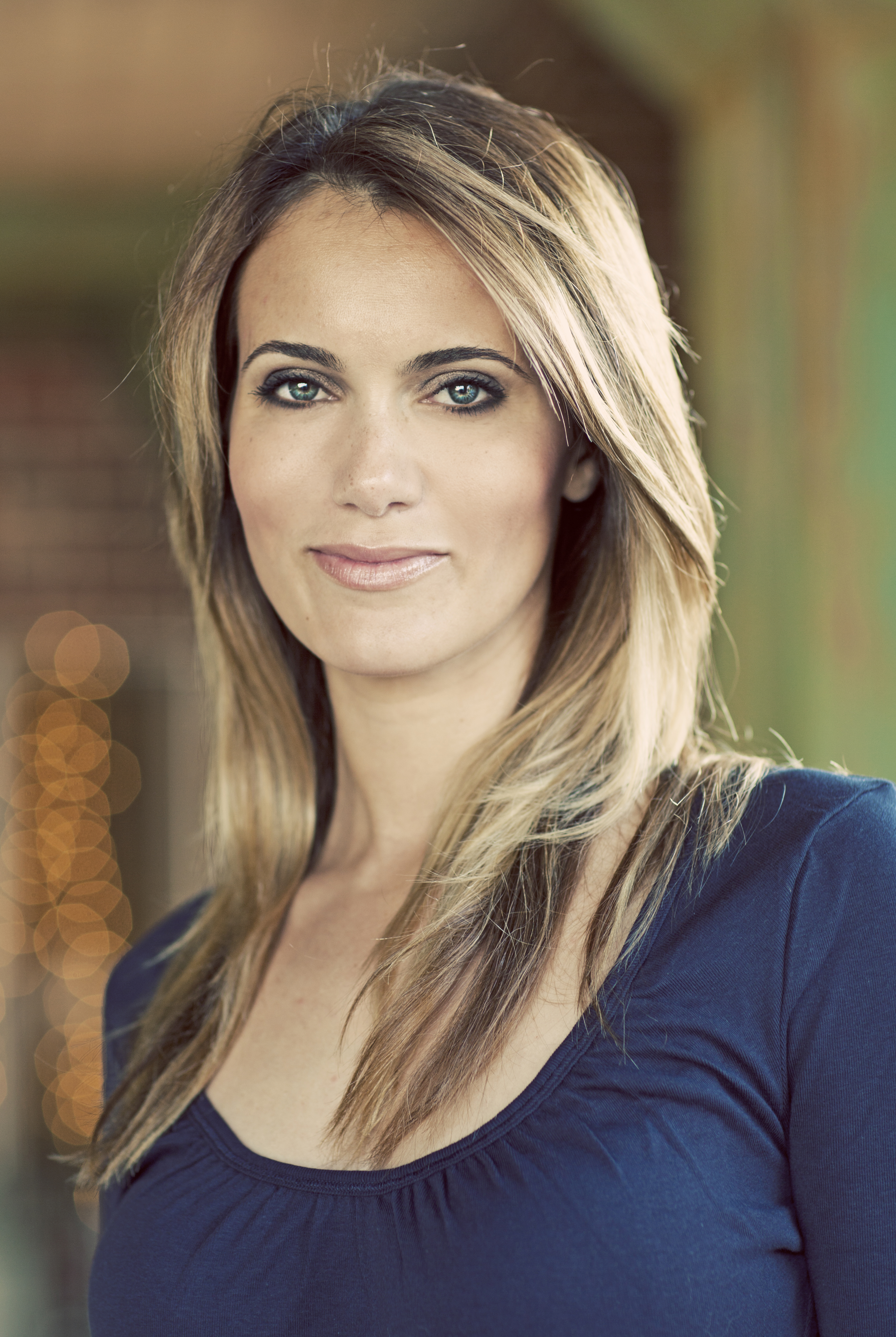 Caroline Amiguet (also known as Amiguet Sivertson) is an actress, writer and producer. Caroline Amiguet was born in Paris, France and grew up in Switzerland. At six months old, she began modeling for magazine covers such as Parents and took part in several contests including Elite Model Look (Elite-Glamour-Canal+) France, Miss Suisse romande and Miss Suisse. In 2003, Caroline moved to Southern California to live her dreams and has since been featured in a number of award winning short films including "Lucy", "Le Retour", and "Donut Shop Hero", and feature films such as "2012: Doomsday". The film "Just Desserts"[1] marks Caroline’s first foray into producing; she also stars. [edit]